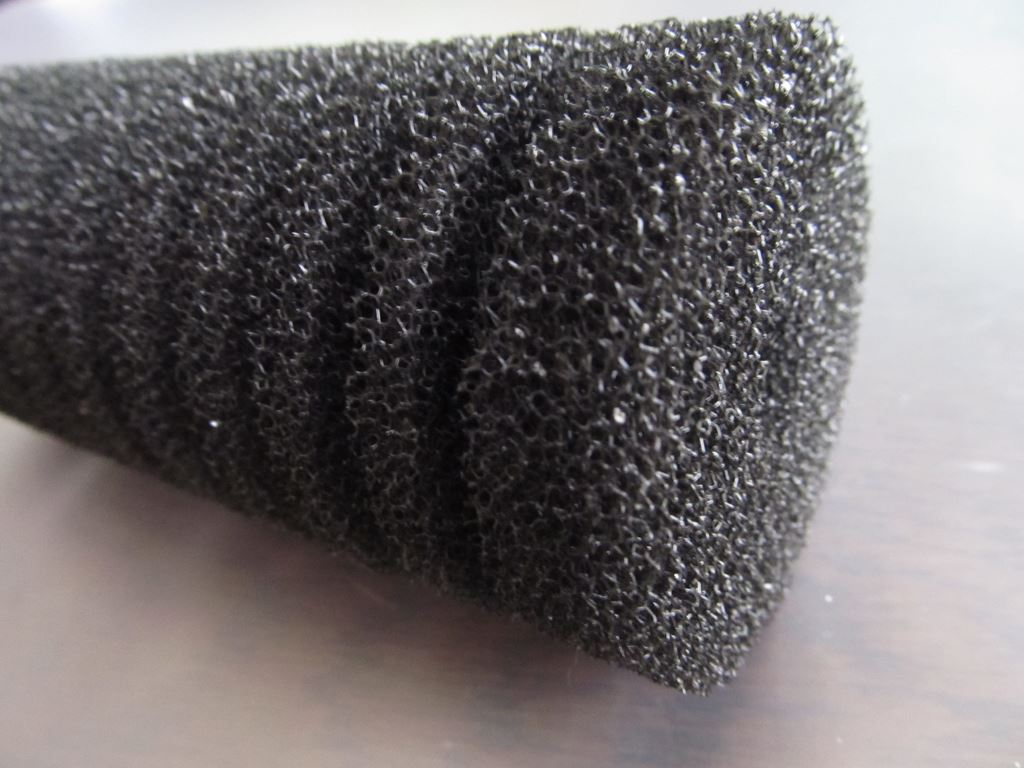 Aquarium Sponge Filter foam 1